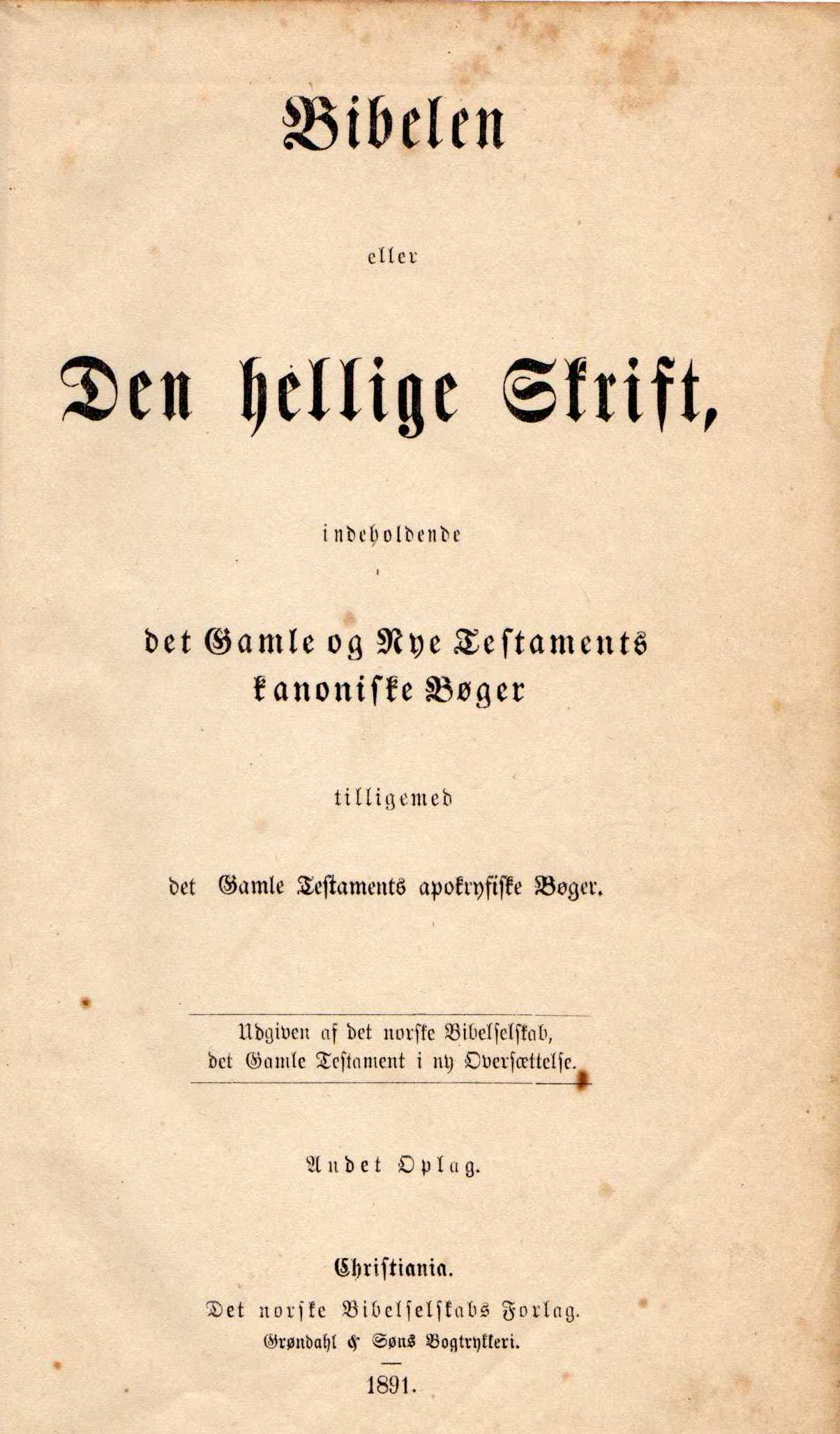 Title page from the Norwegian Bible translation of 1891. The Norwegian Bible Society.